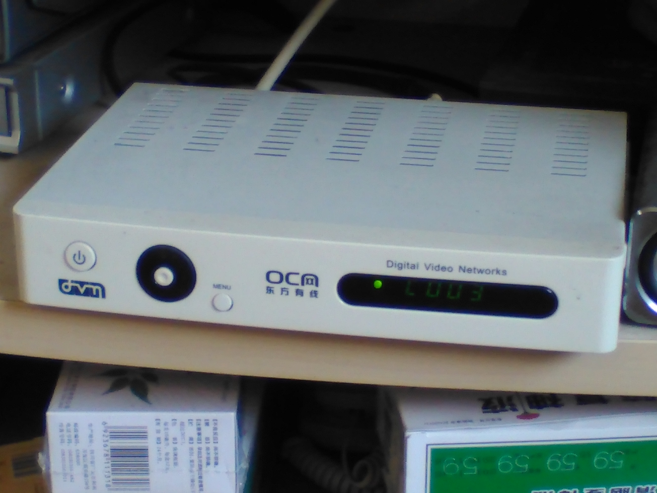 A set-top box of Shanghai OCN, the only cable TV service provider of Shanghai.